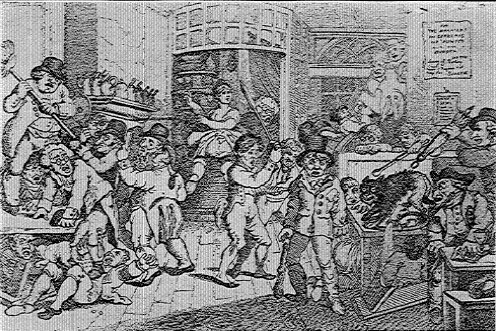 "A Mad Dog in a Coffee-House" by Rowlandson, showing a rabid dog terrorizing a coffee house in 18th century England (possibly Garrison's or Jonathan's, near the Exchange).